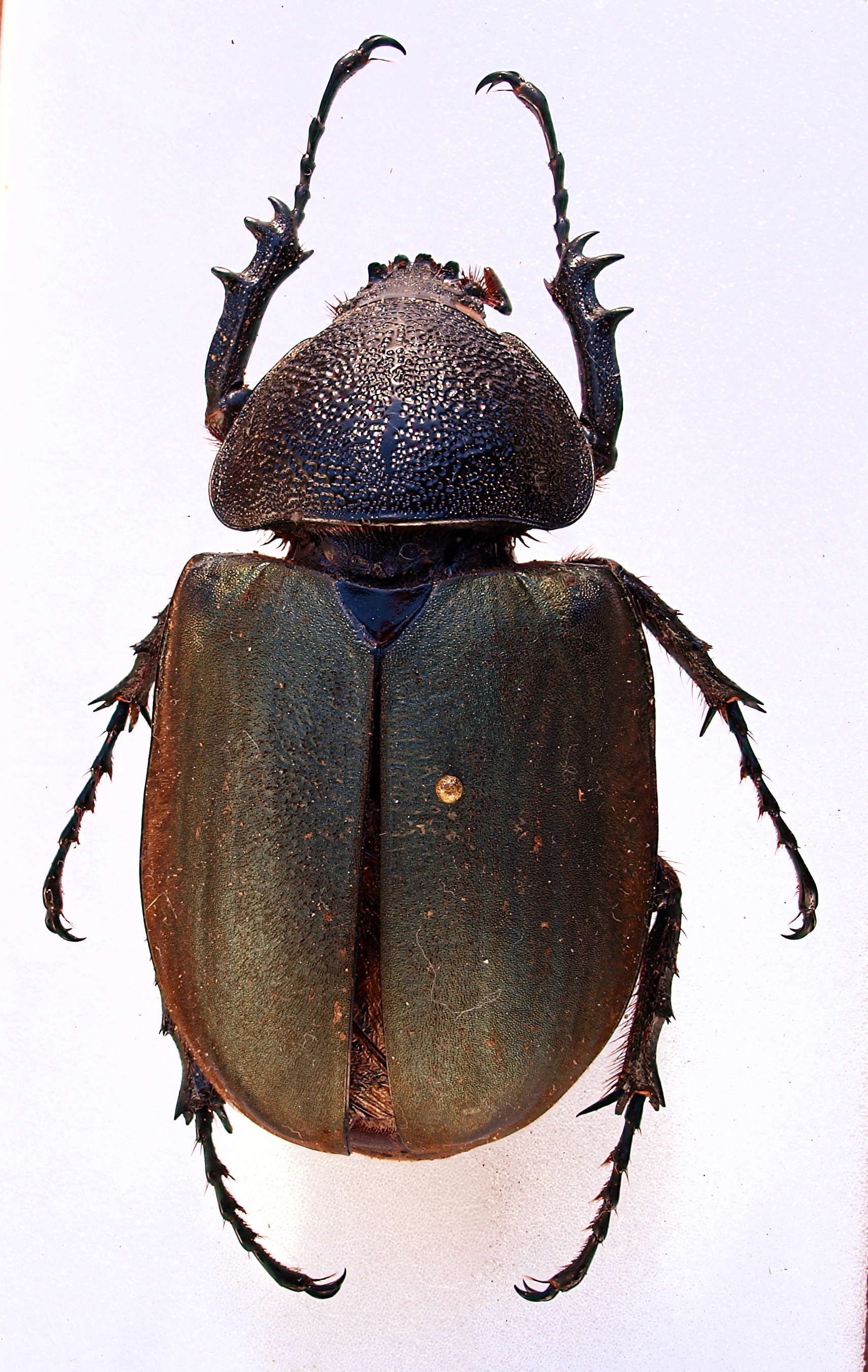 Chalcosoma caucasus, female